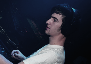 Picture of Mat Zo